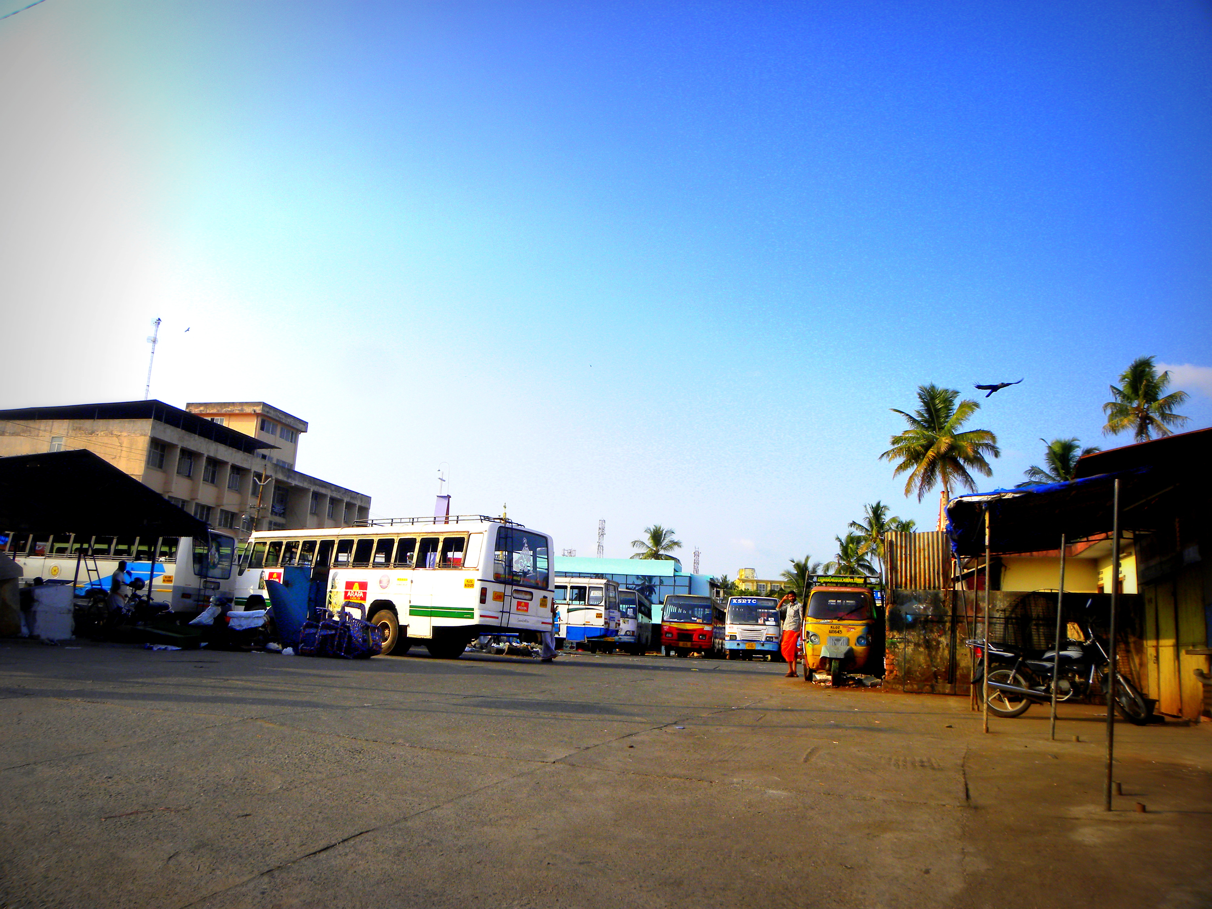 Andamukkam City Bus Stand is currently the only bus stand owned by Kollam city corporation